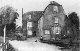 The previous Sussex Pad Inn on the Lancing Road (now A27), Sussex. which burned down 26 October 1905. While living at Charmandean, Broadwater, Sussex, philanthropist Ann Thwaytes used to follow a ritual at full moon of dressing in white and driving past this inn.